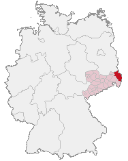 Location map of Niederschlesischer Oberlausitzkreis in Germany